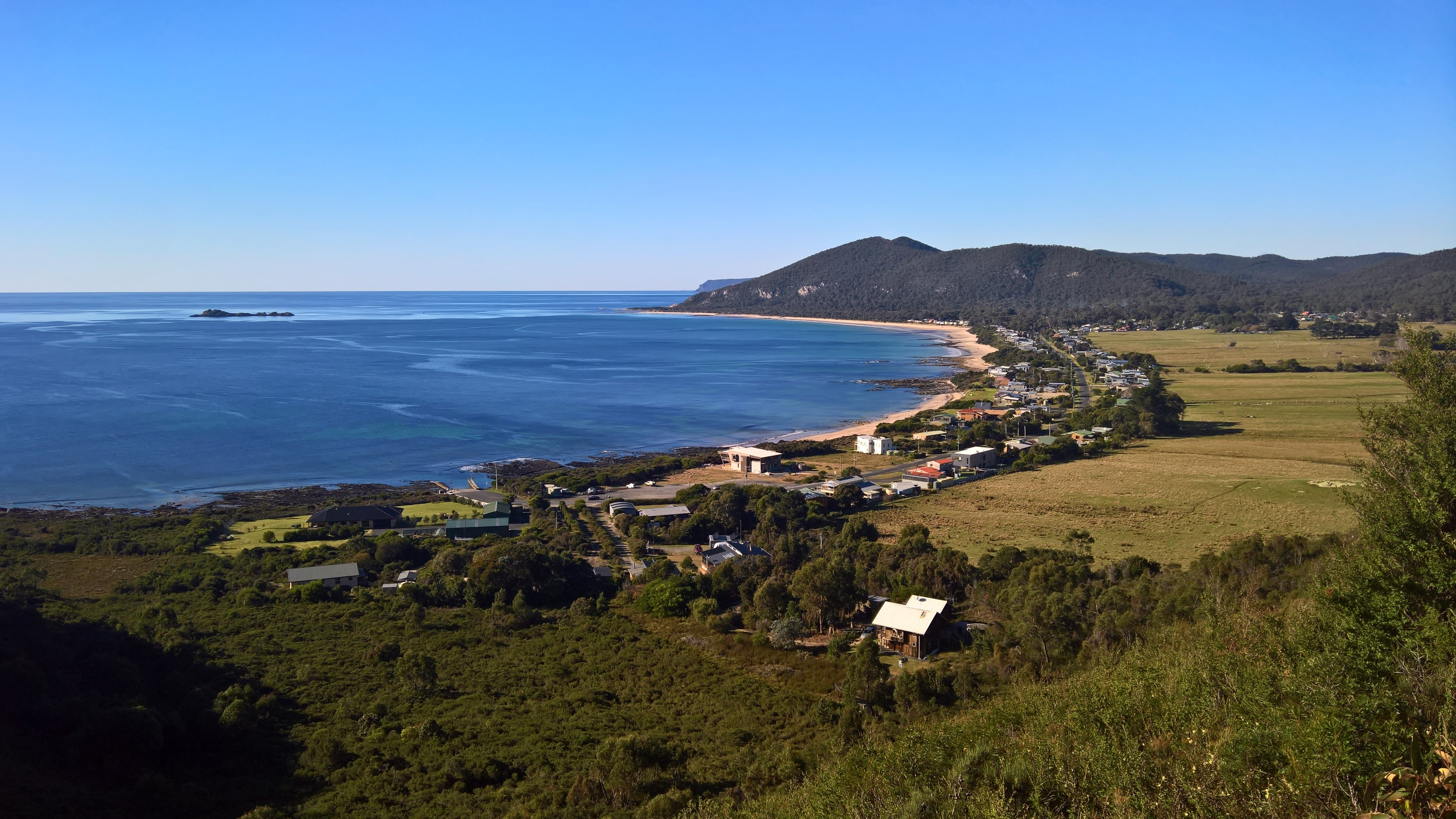 View of Sisters Beach, Tasmania from the western walking track. Sisters Island and the Two Sisters peak are in the background. Table Cape partially obscured in the far distance.